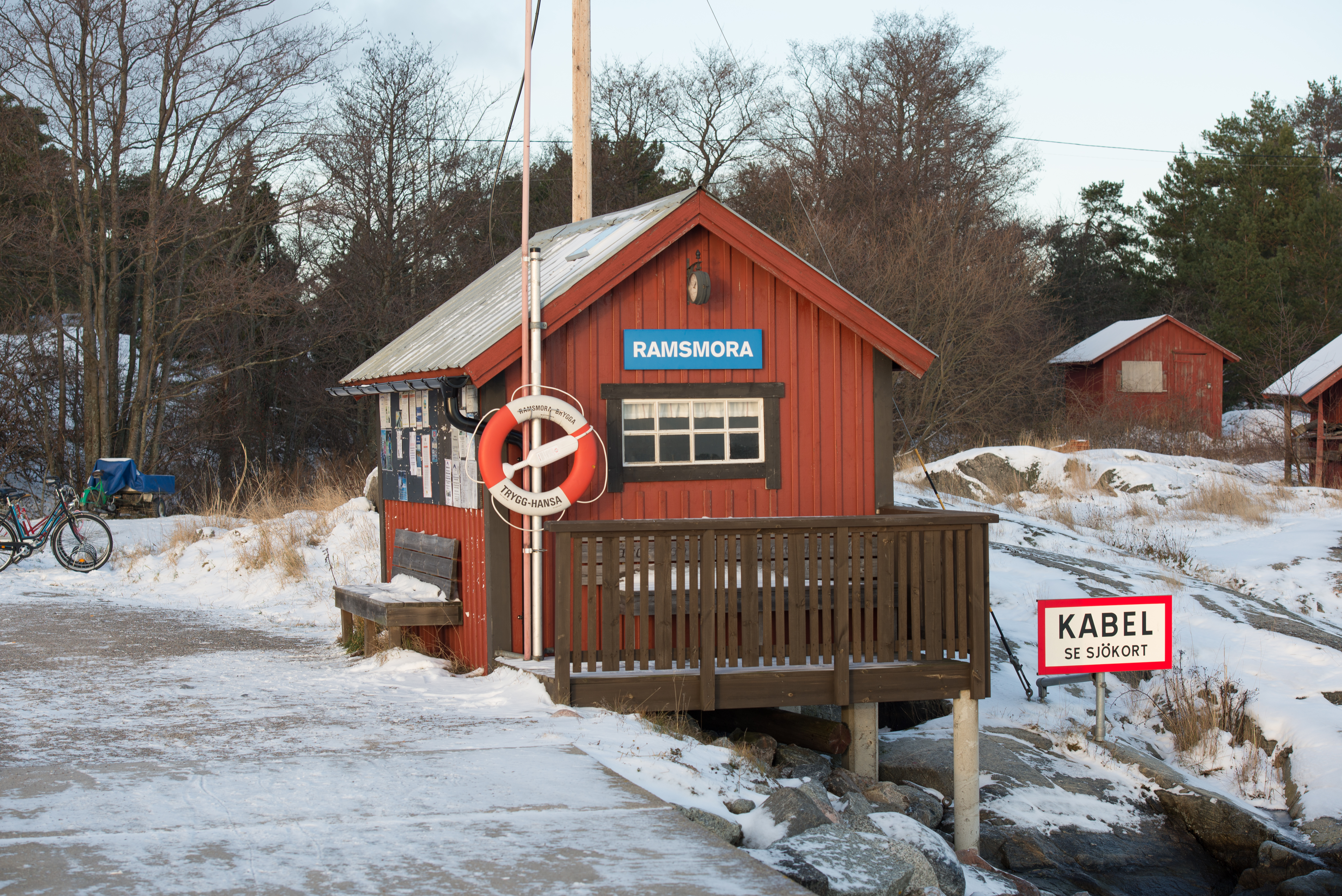 Waiting room at Ramsmora jetty, Möja island, Stockholm archipelago.